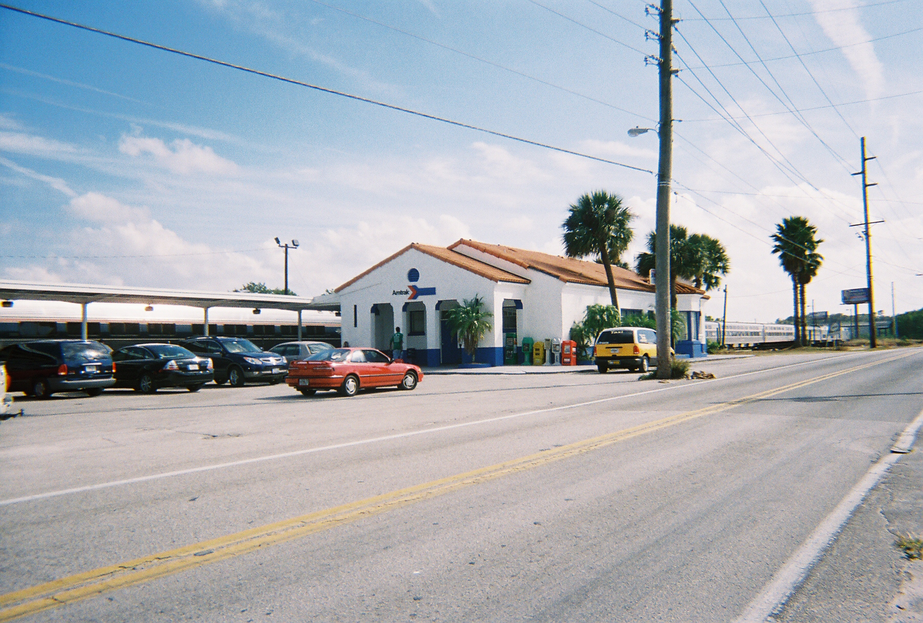 View of the Winter Haven (Amtrak station), formerly a Seaboard Air Line Railroad station, from across 7th Street Southwest in Winter Haven, Florida.